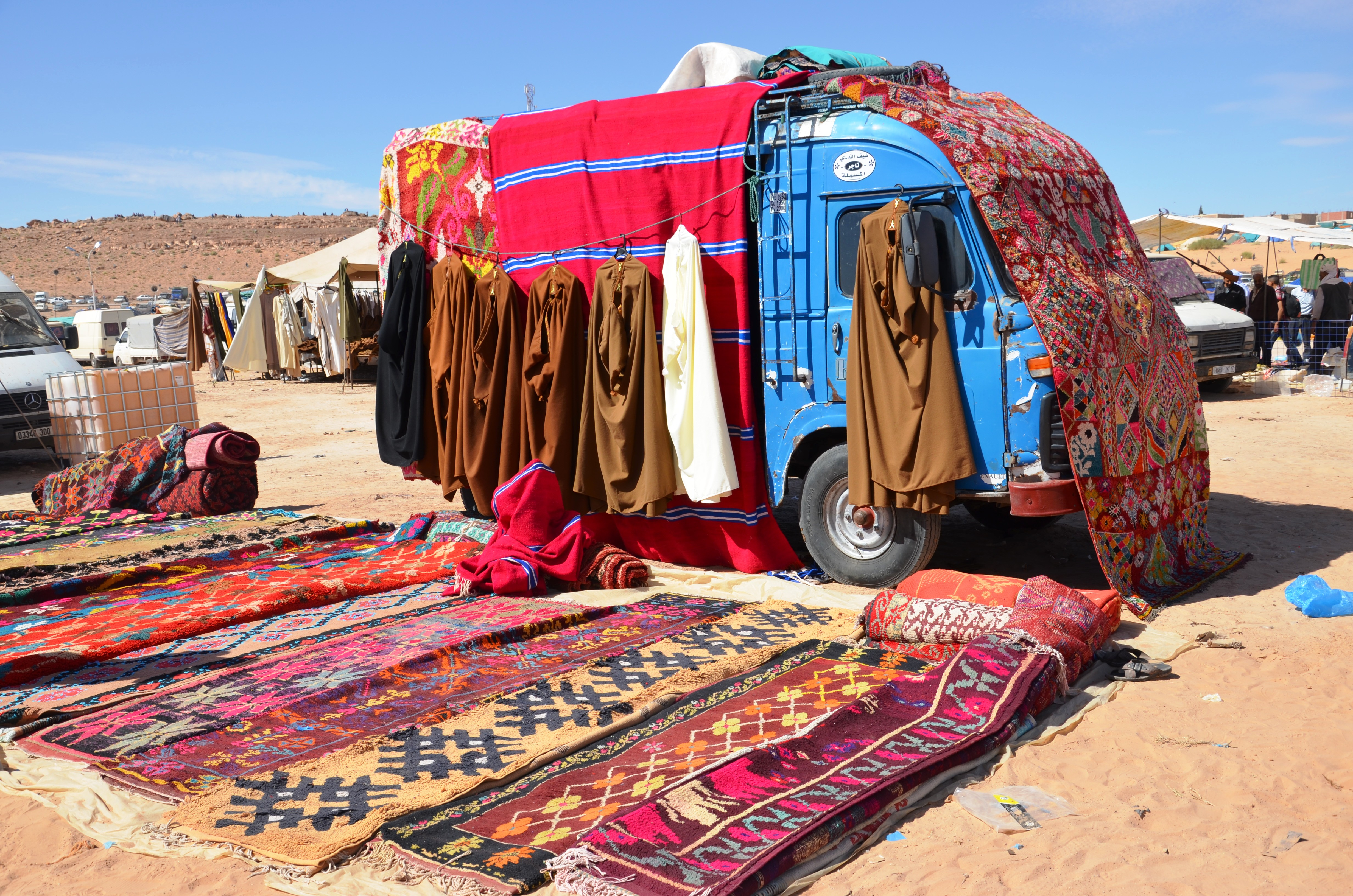 This is an image with the theme "Africa on the Move or Transport" from: Algeria